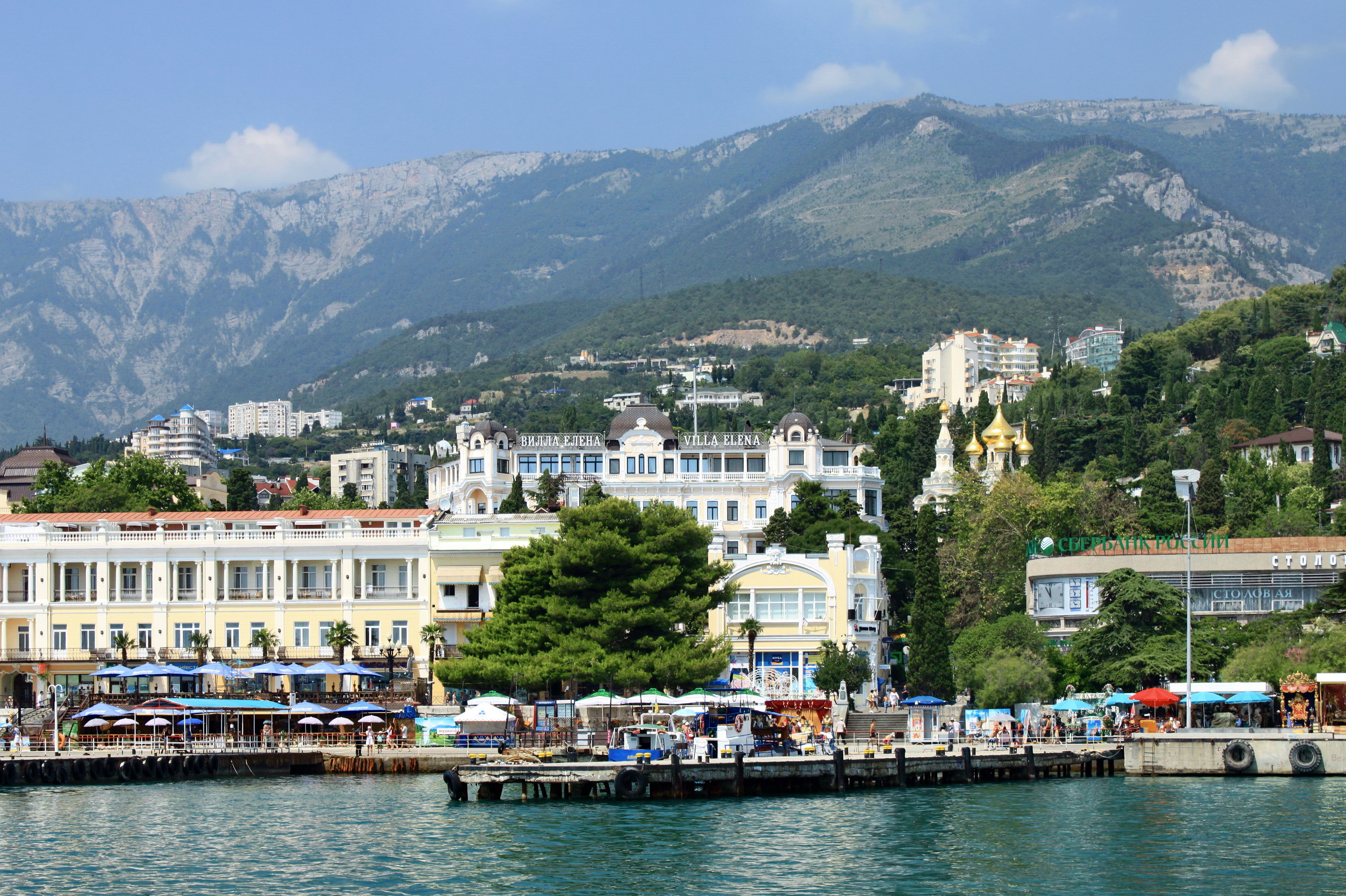 View of the city from the ship. Yalta, Crimea.